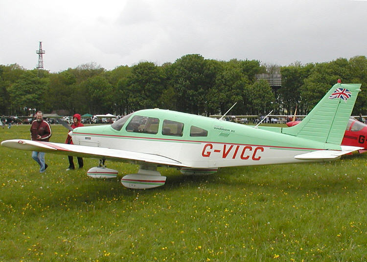 Piper PA-28 Cherokee Warrior II (G-VICC), photographed at the Great Vintage Fly-in Weekend, Kemble Airfield, England, May 2003.